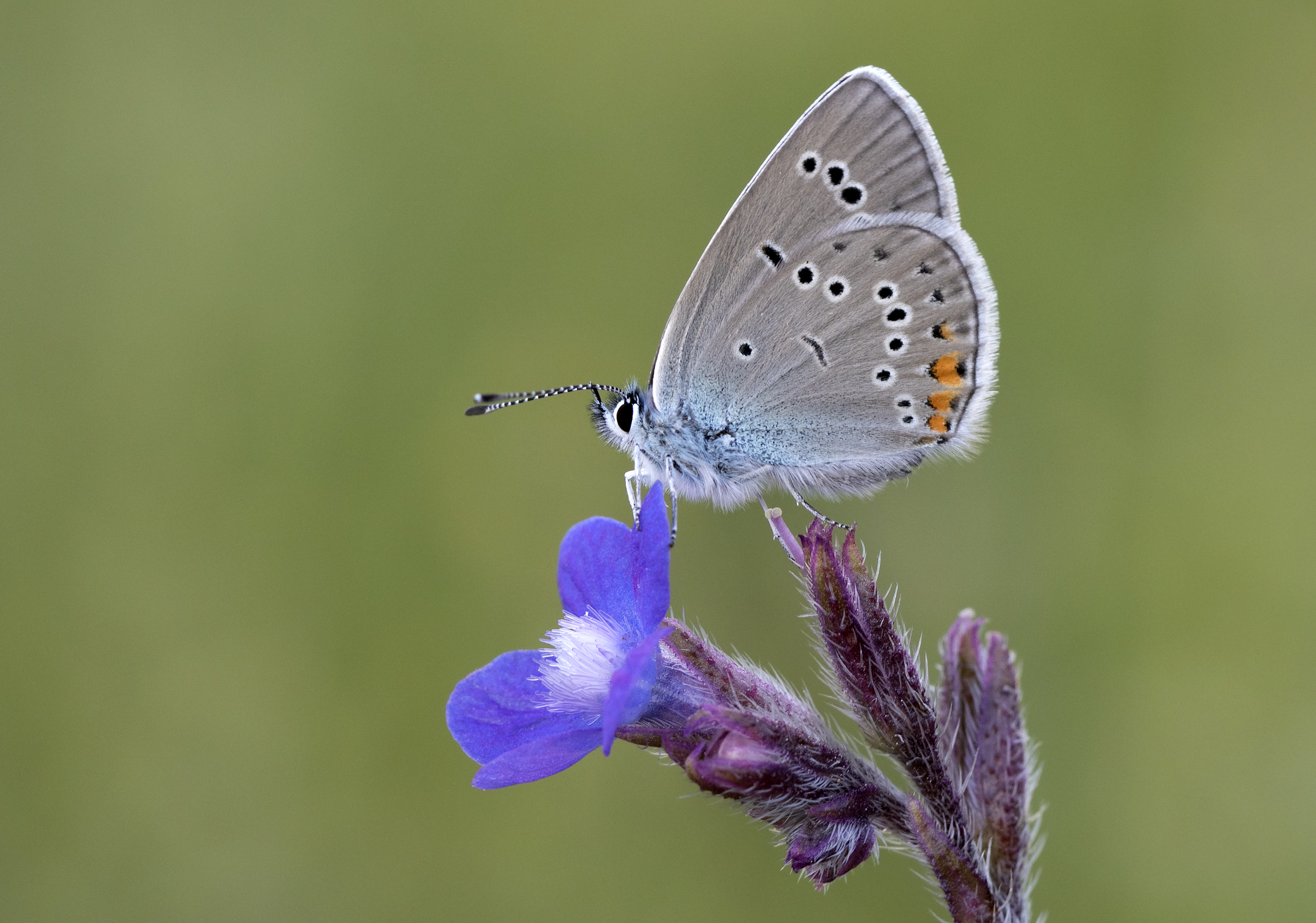 Wing underside view of a female Hatay's Mazarine Blue (Polyommatus bellis antiochena). Obrukbaşı, Saimbeyli - Adana, Turkey.